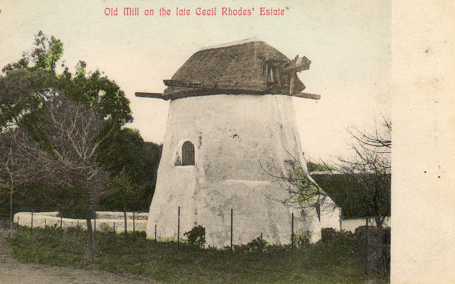 Postcard showing Mostert's Mill, Mowbray, Cape Town in the 1900s